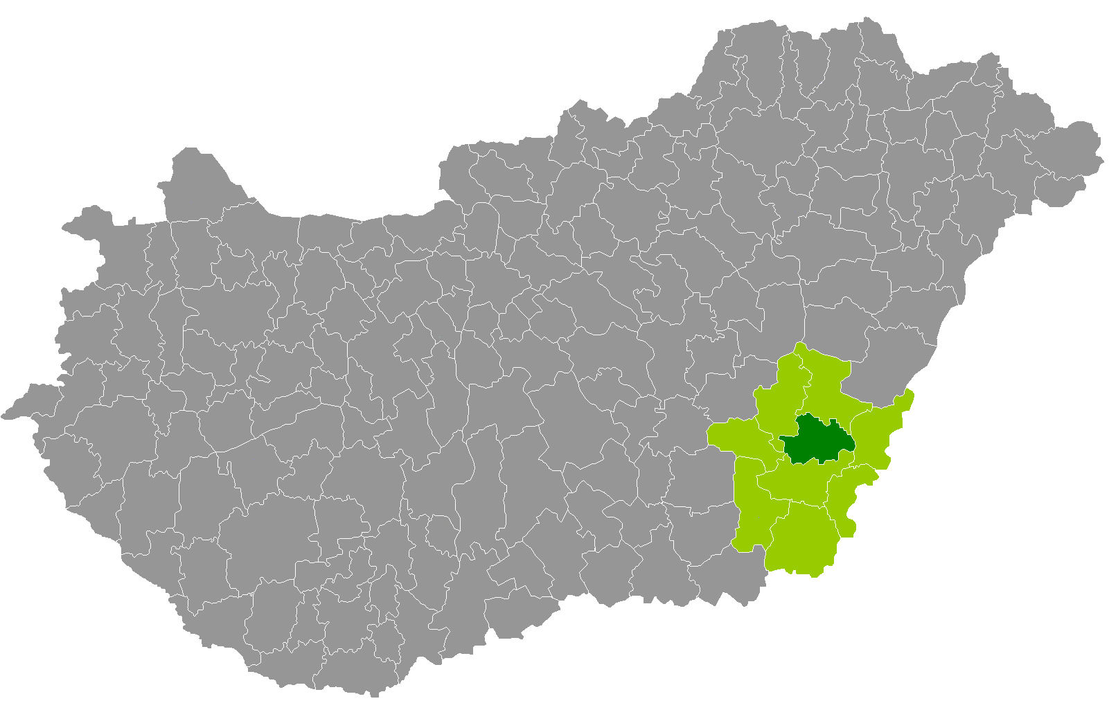 Location of Békés District, Békés, Hungary